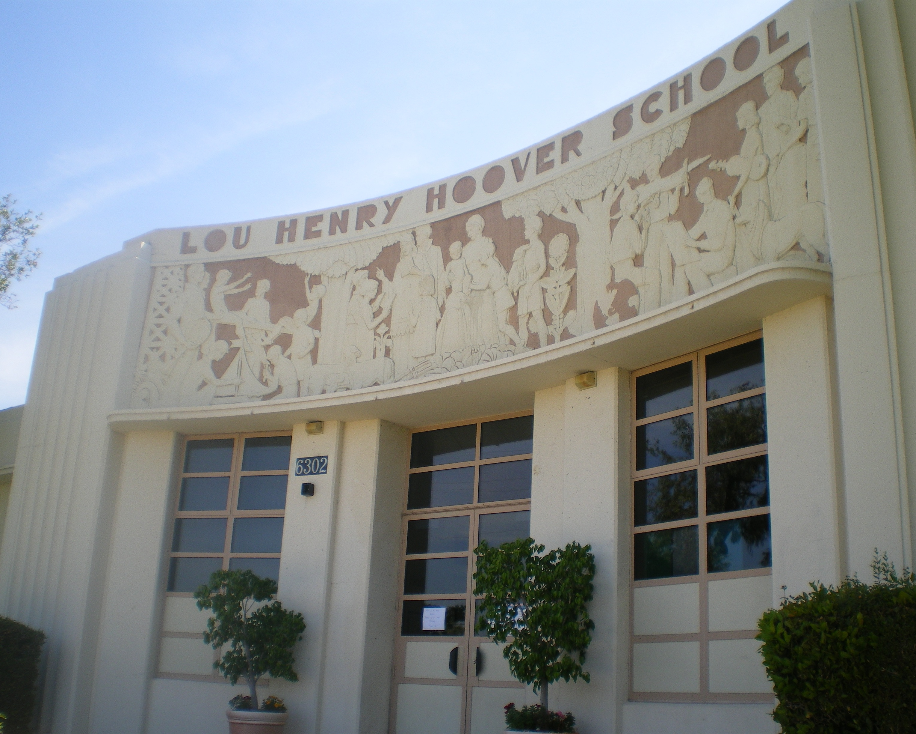 Frieze at Front Entrance to Lou Henry Hoover School